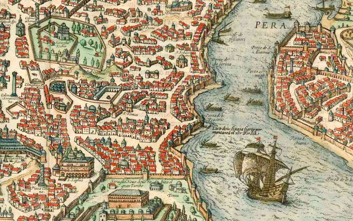 Particular of the lower Golden Horn region of Constantinople, from Braun and Hogenberg, 1572